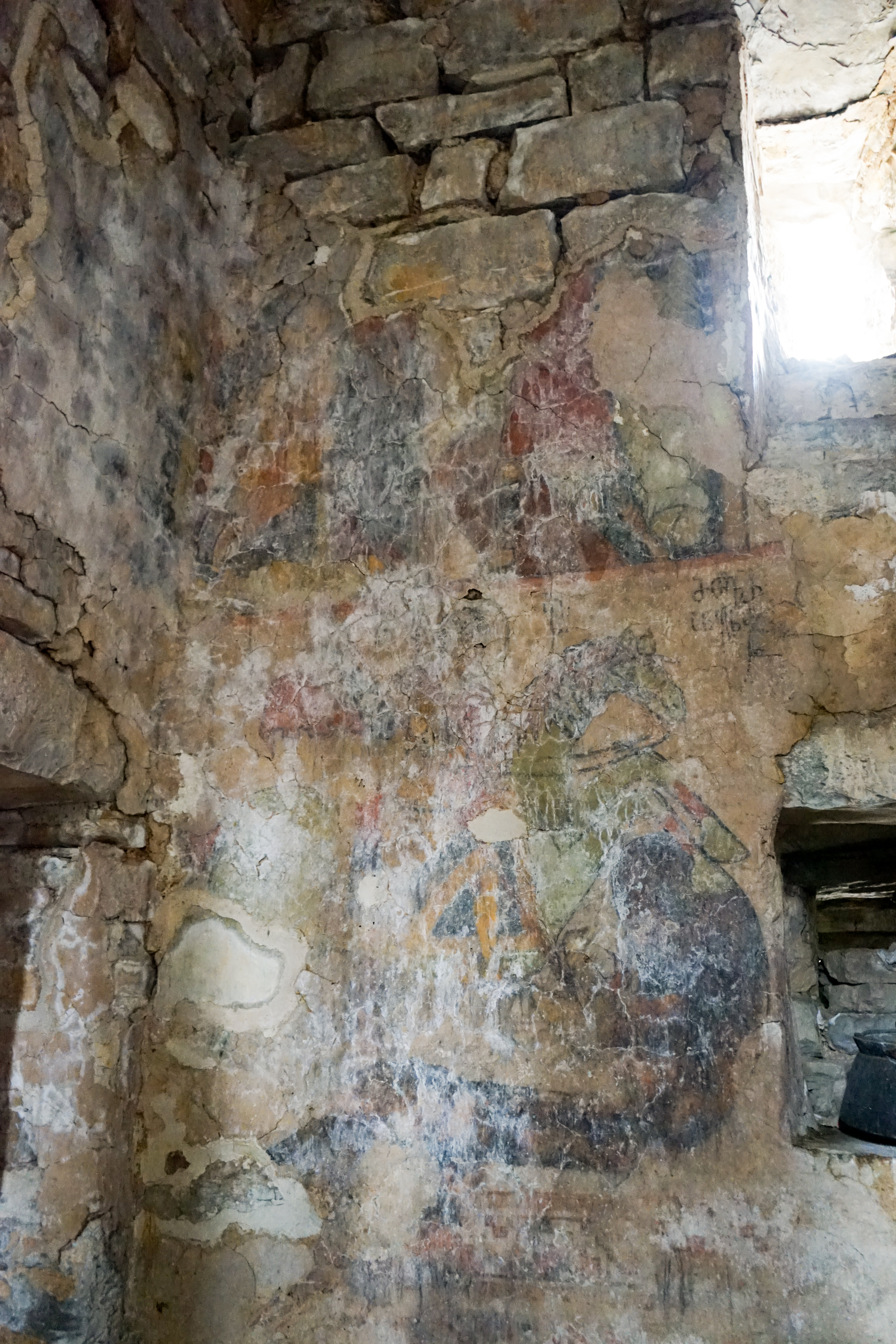 Saint George Church of Mzetsveri (IX-X cc.), Buchaani, Mtskheta-Mtianeti, Georgia